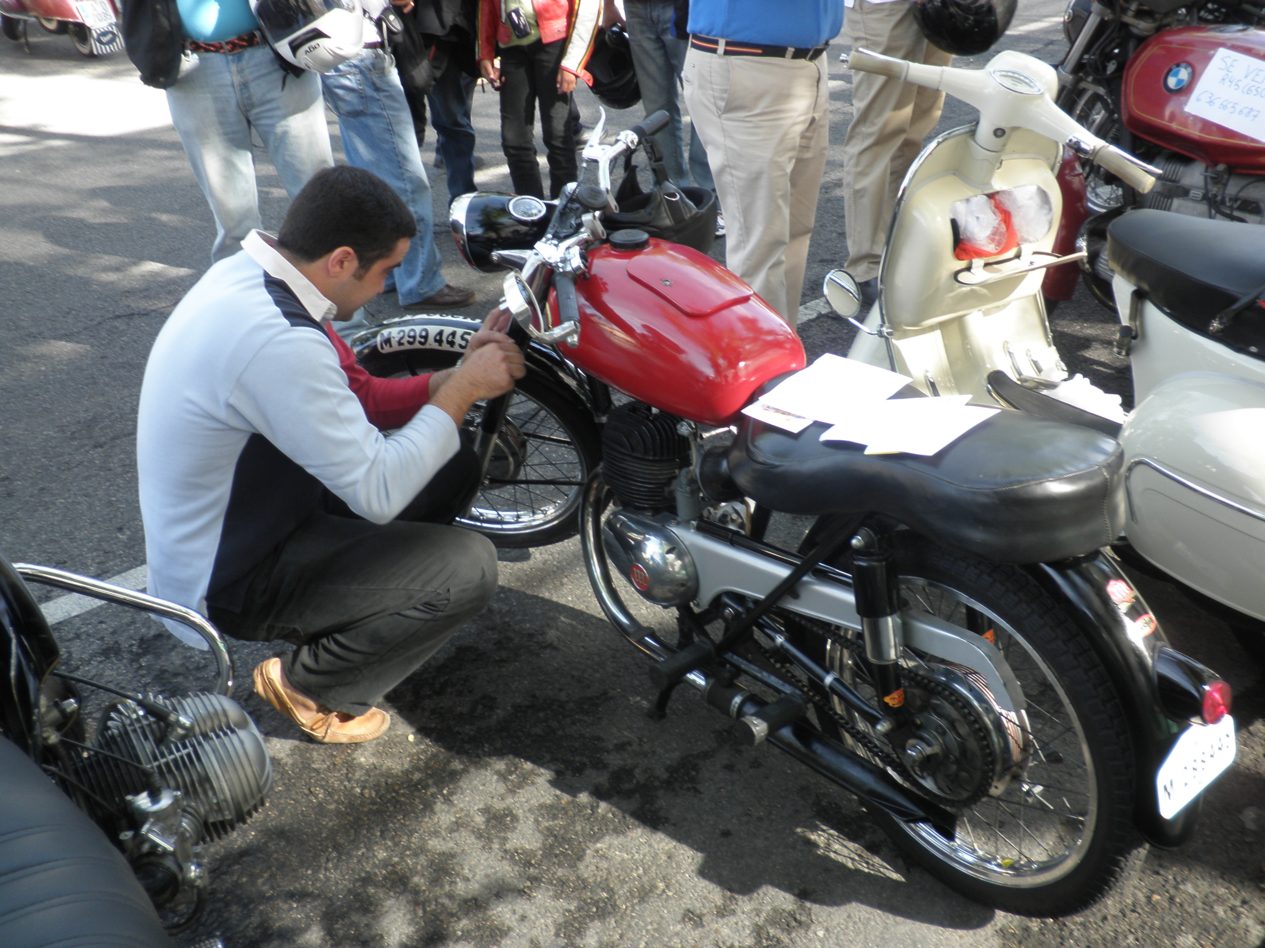 1961 Montesa Brio 110